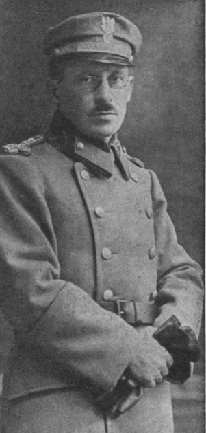 Karol Wojtyła, Sr., fahter of Pope John Paul II